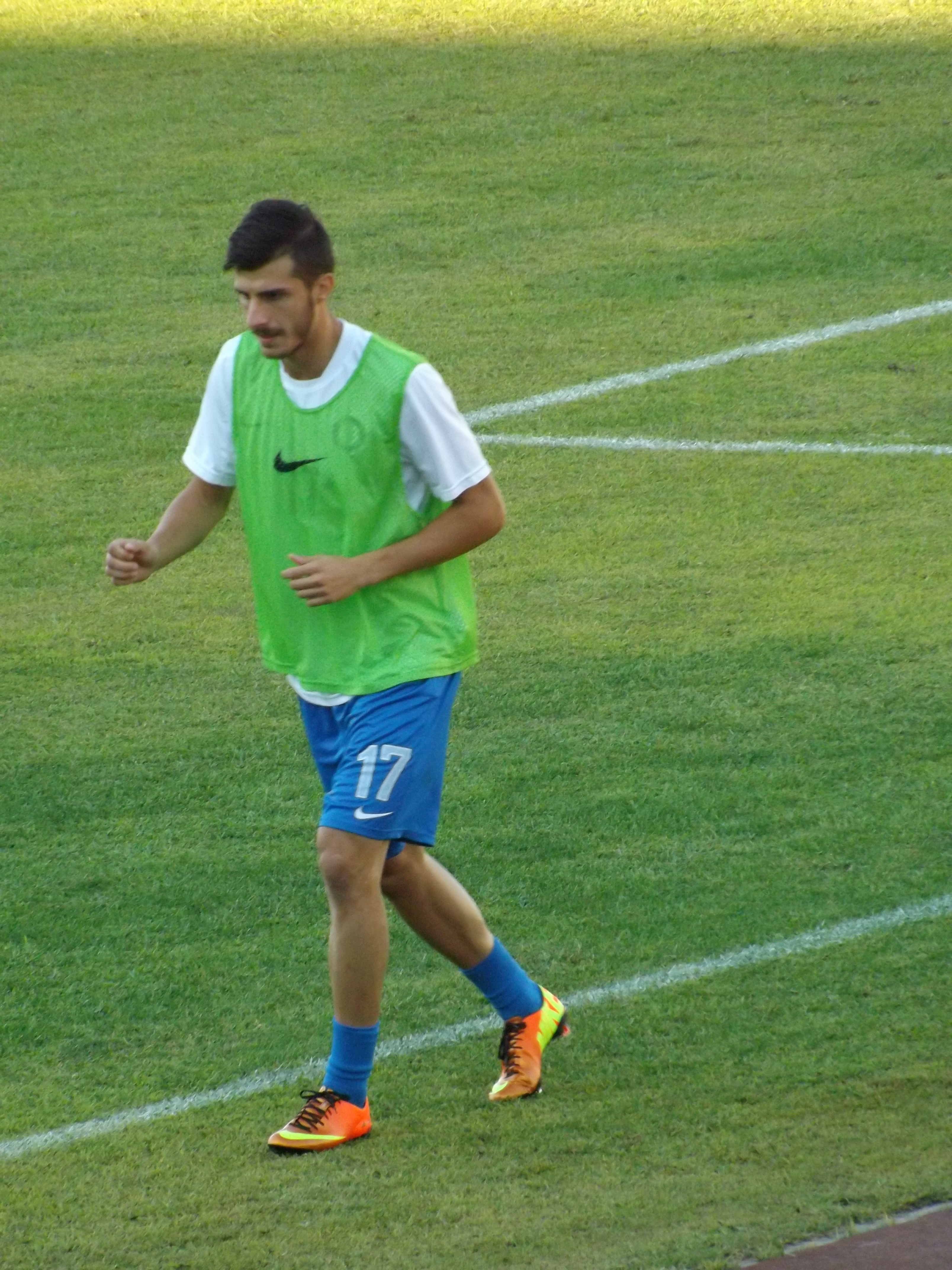 Paschalis Voutsias during a warm up session for Iraklis.